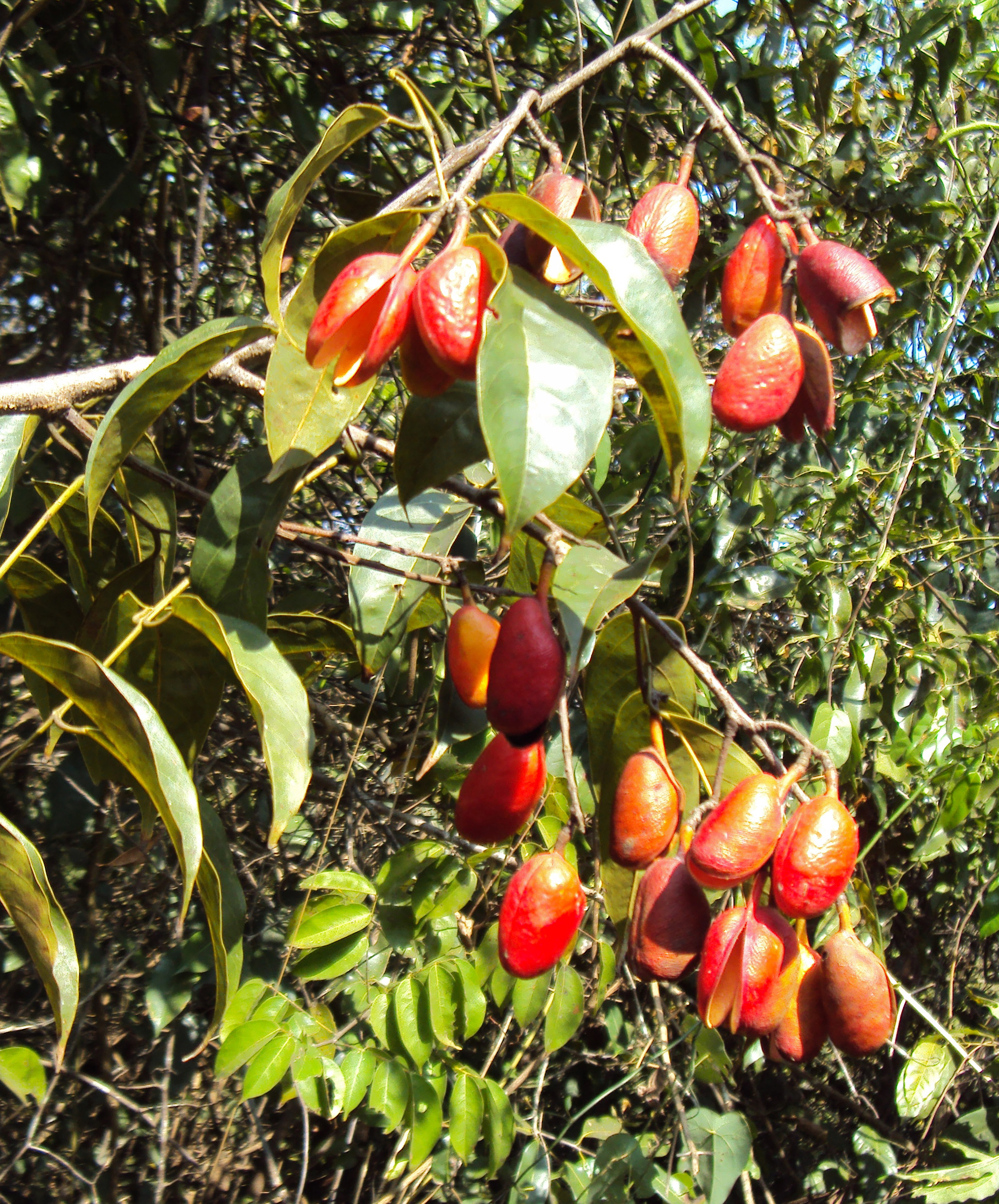 Connarus paniculatus